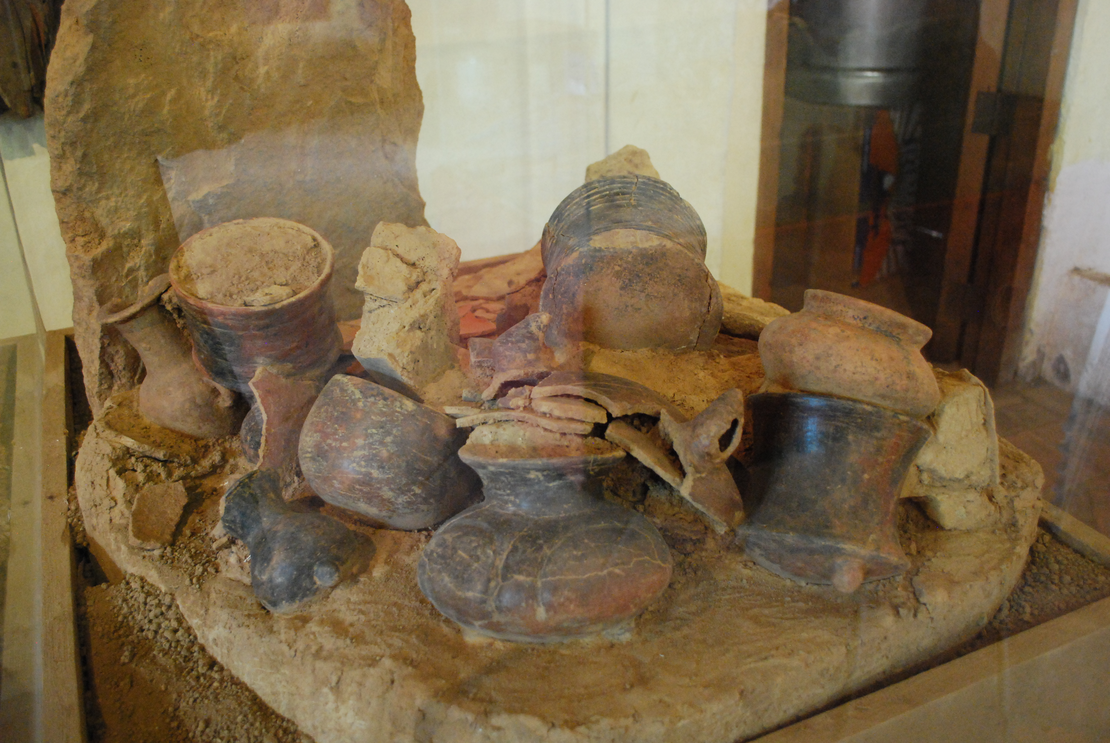 Artifacts from an local archeological dig in Tlayacapan, Morelos, Mexico at the La Cereria Museum